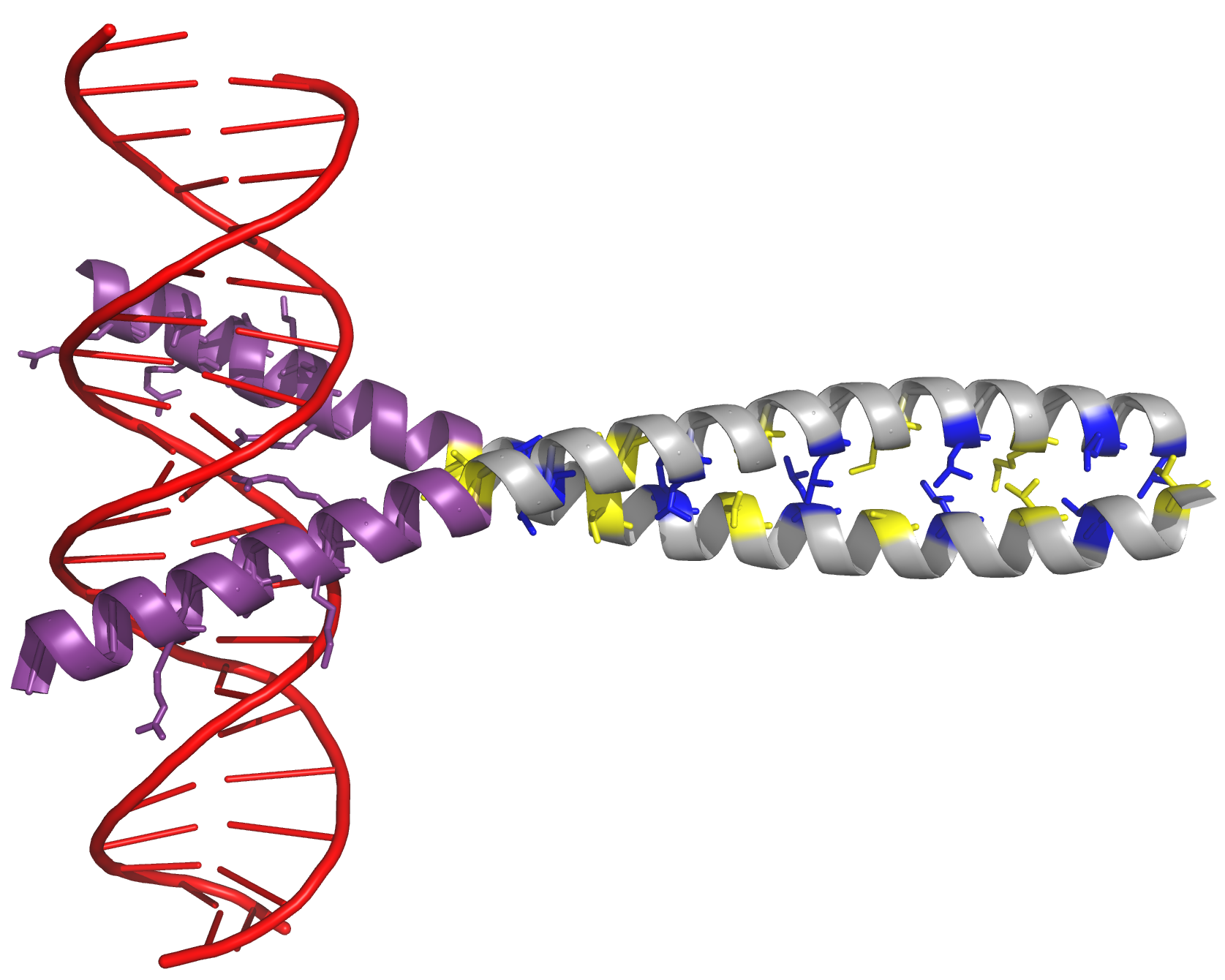 UM chem505 1FOS c-jun , c-fos heterodimer